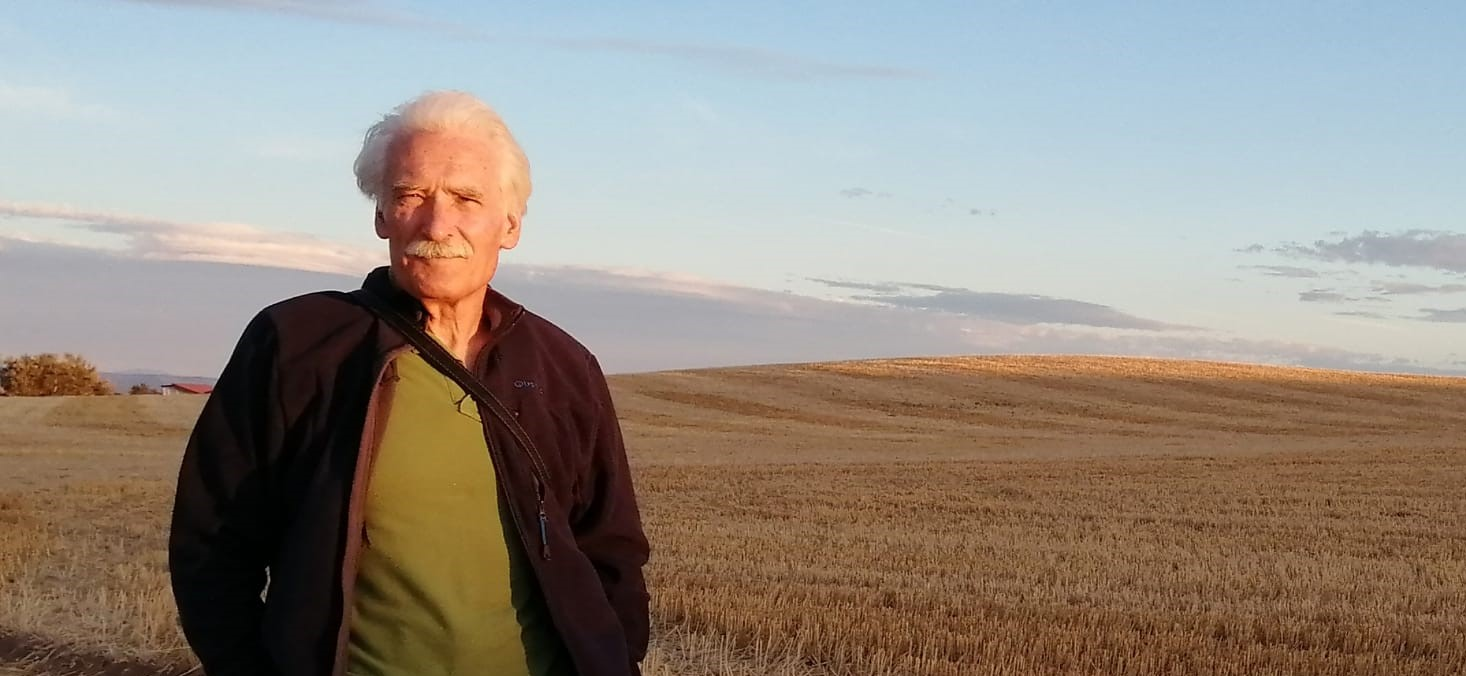 Pascual Izquierdo